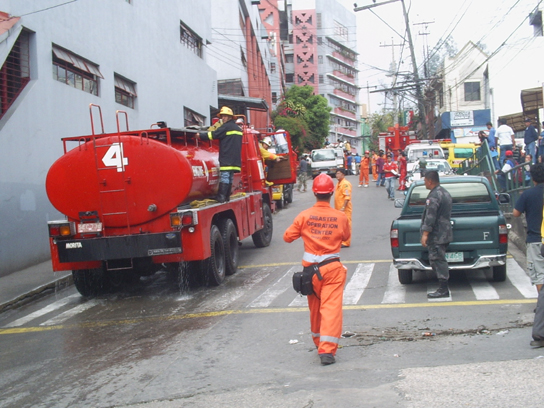 University Of Baguio Fire